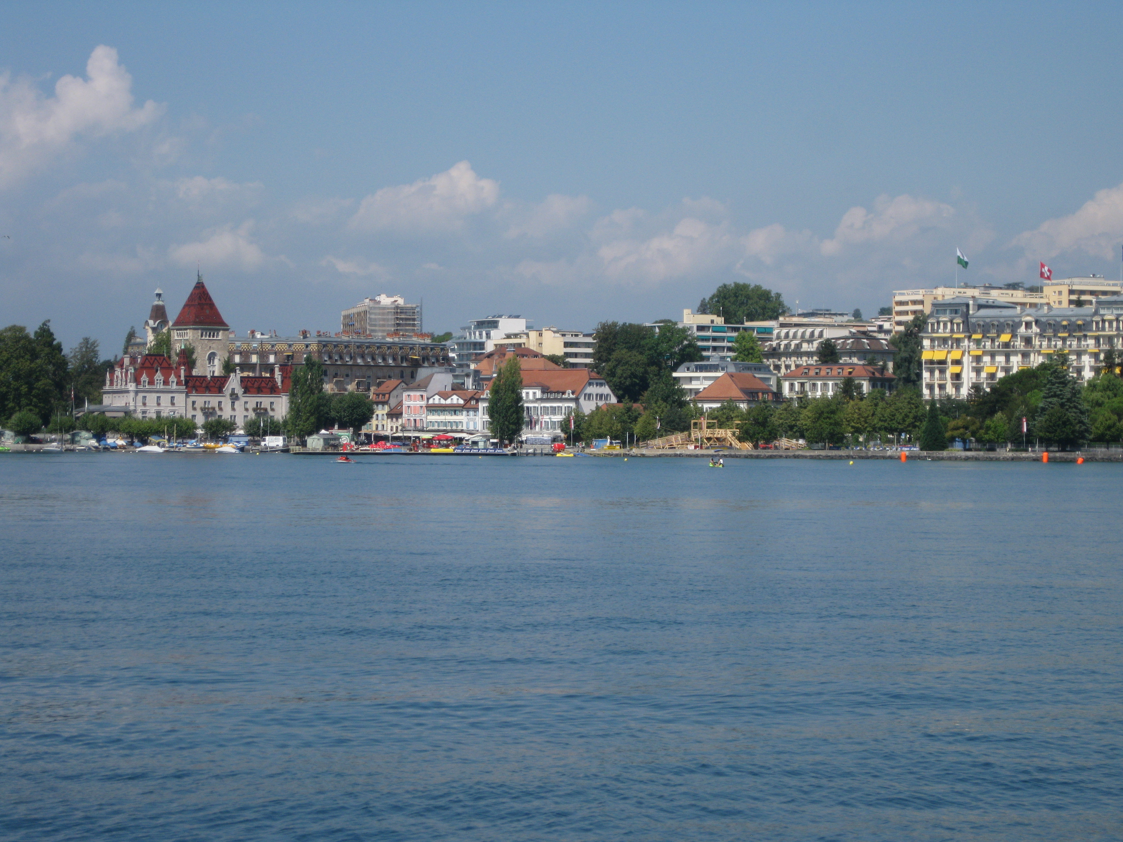 Around the lake of Geneva, Switzerland / France. Location see geotag.